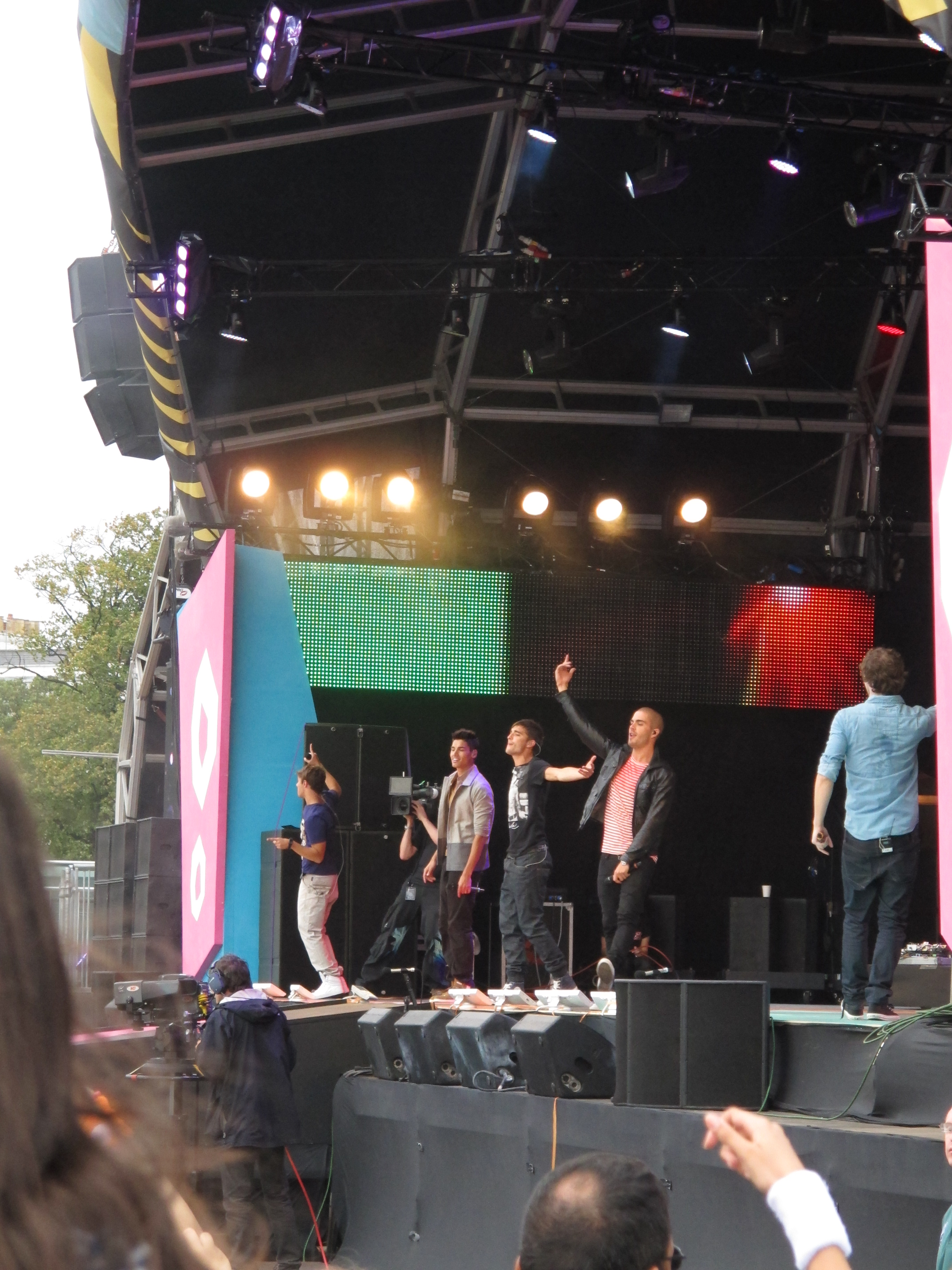 The Wanted at Sainsbury's Super Saturday